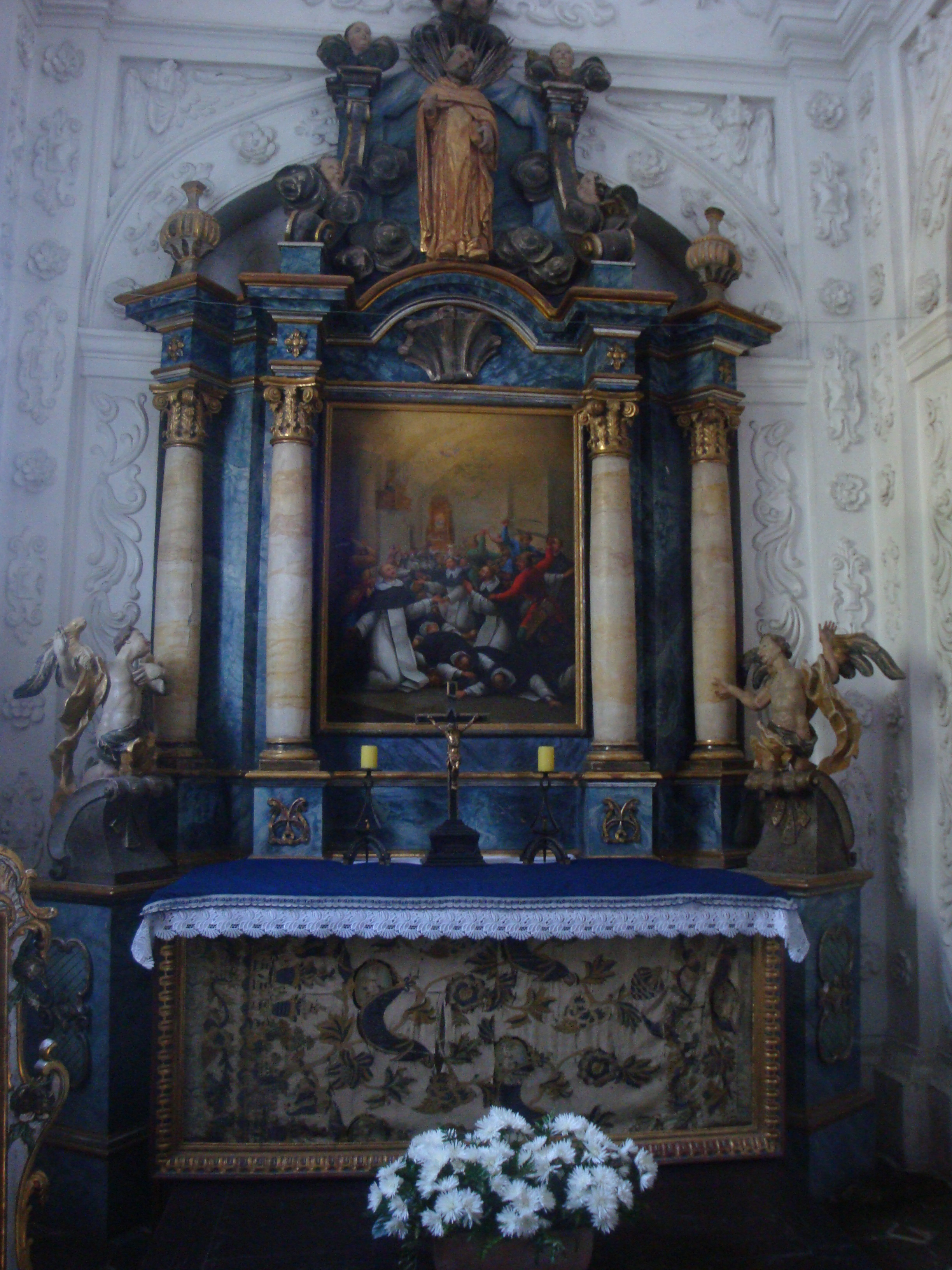 Chapel of Sadok in Sandomierz